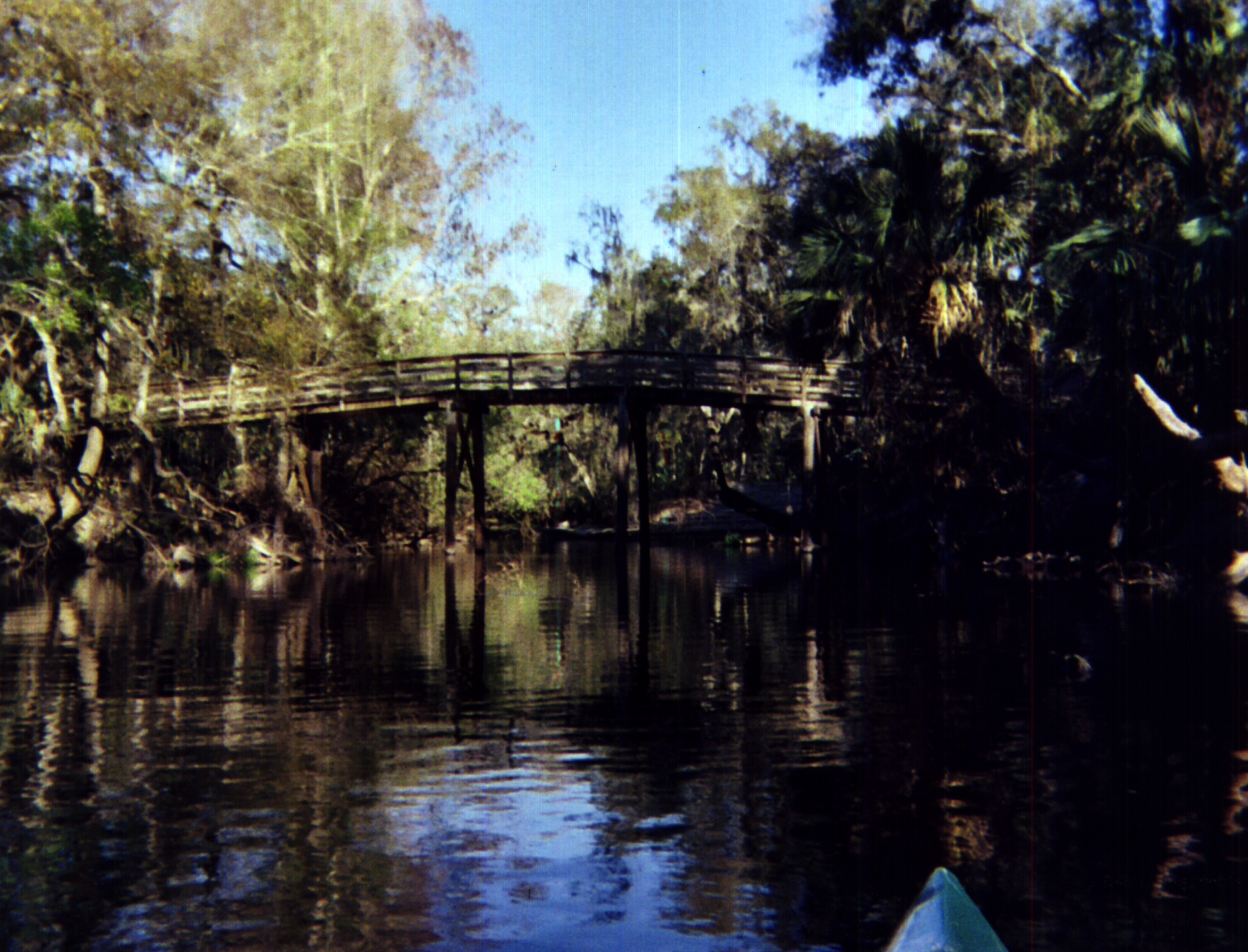 Hillsboro River Taken by User:Mwanner, February, 2005.